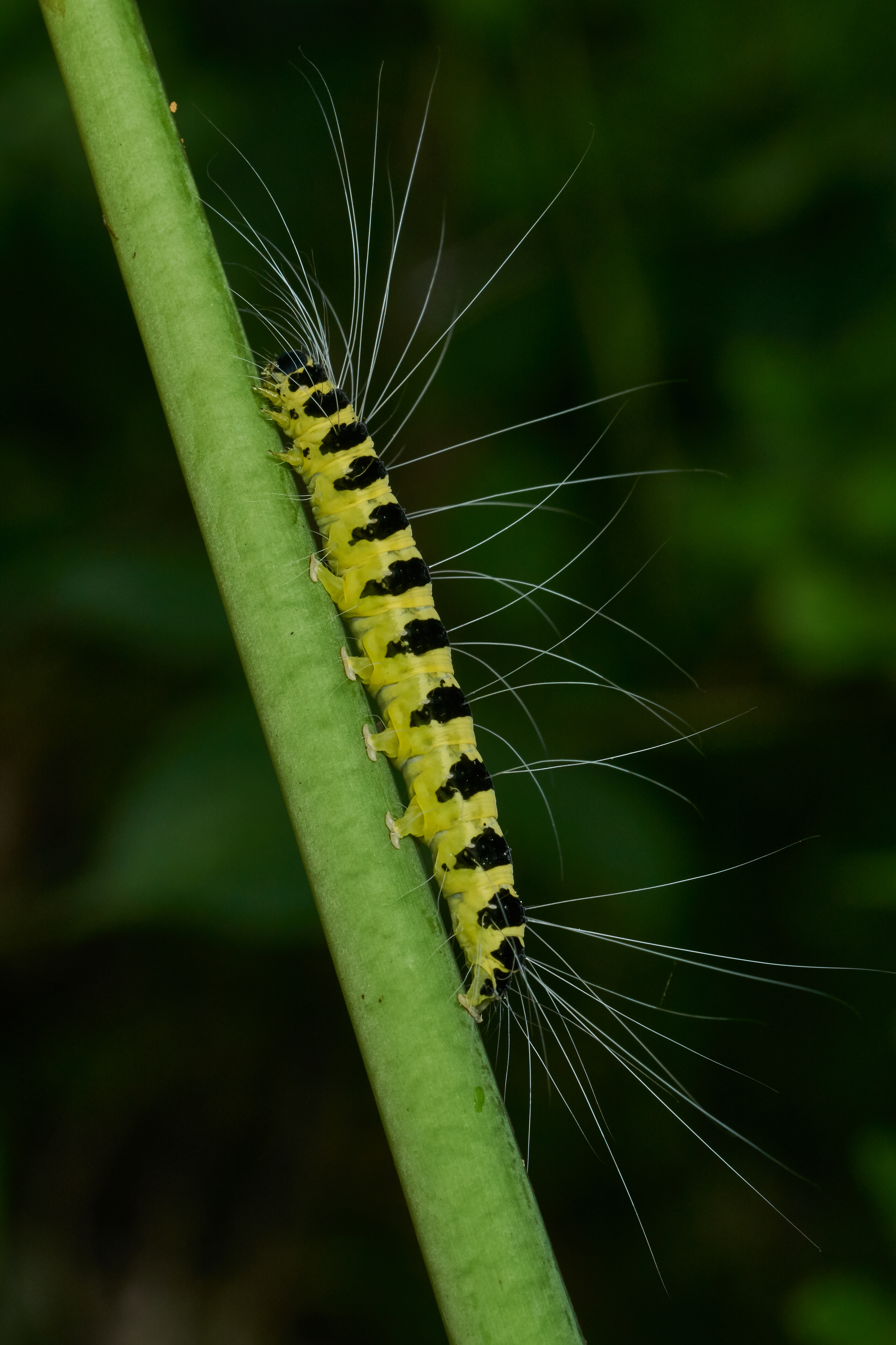 Eligma narcissus is a moth in the Nolidae family.